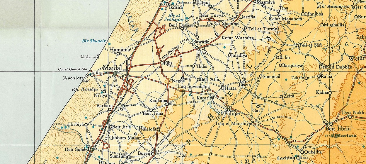 Majdal. Survey of Palestine. 1945. Scale 1:250,000